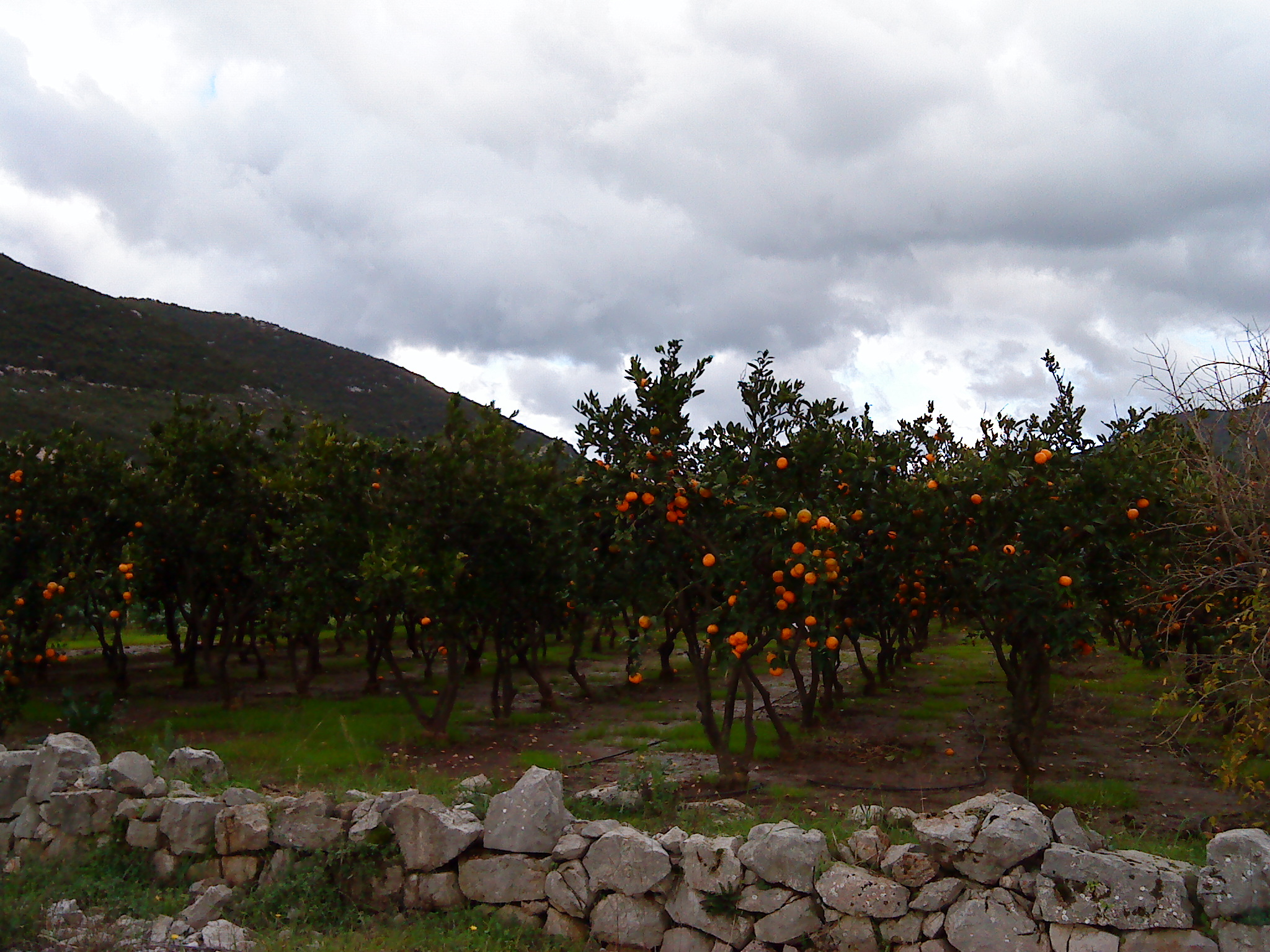 Village of Brijesta, Ston municipality